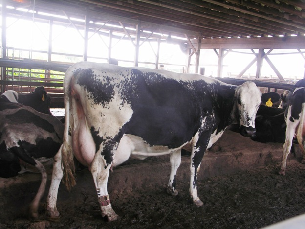 A Lineback cow from the farm of Vaarok. Uploaded for the common good.